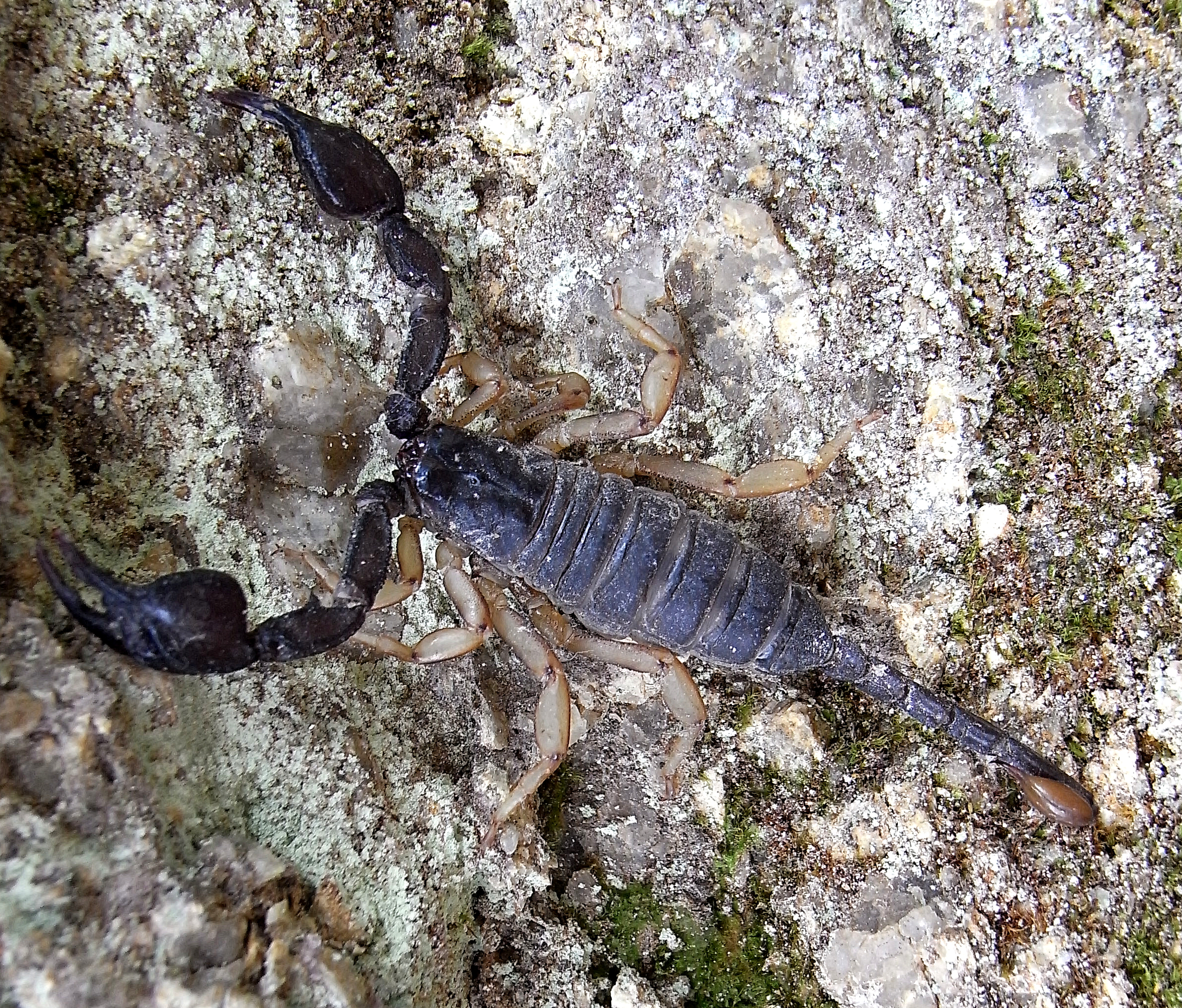 Euscorpius flavicaudis from the wall of an old house in Lasalles, Southern France, east of Tarbes Ricoh R8